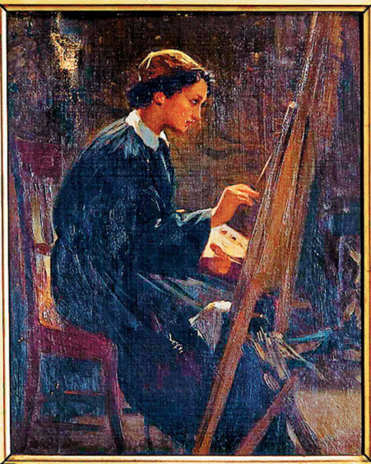 Greek painter Eleni Bukura-Altamura (1821-1900):Self portrait